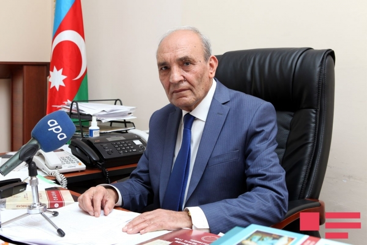 Möhsün Nağısoylu